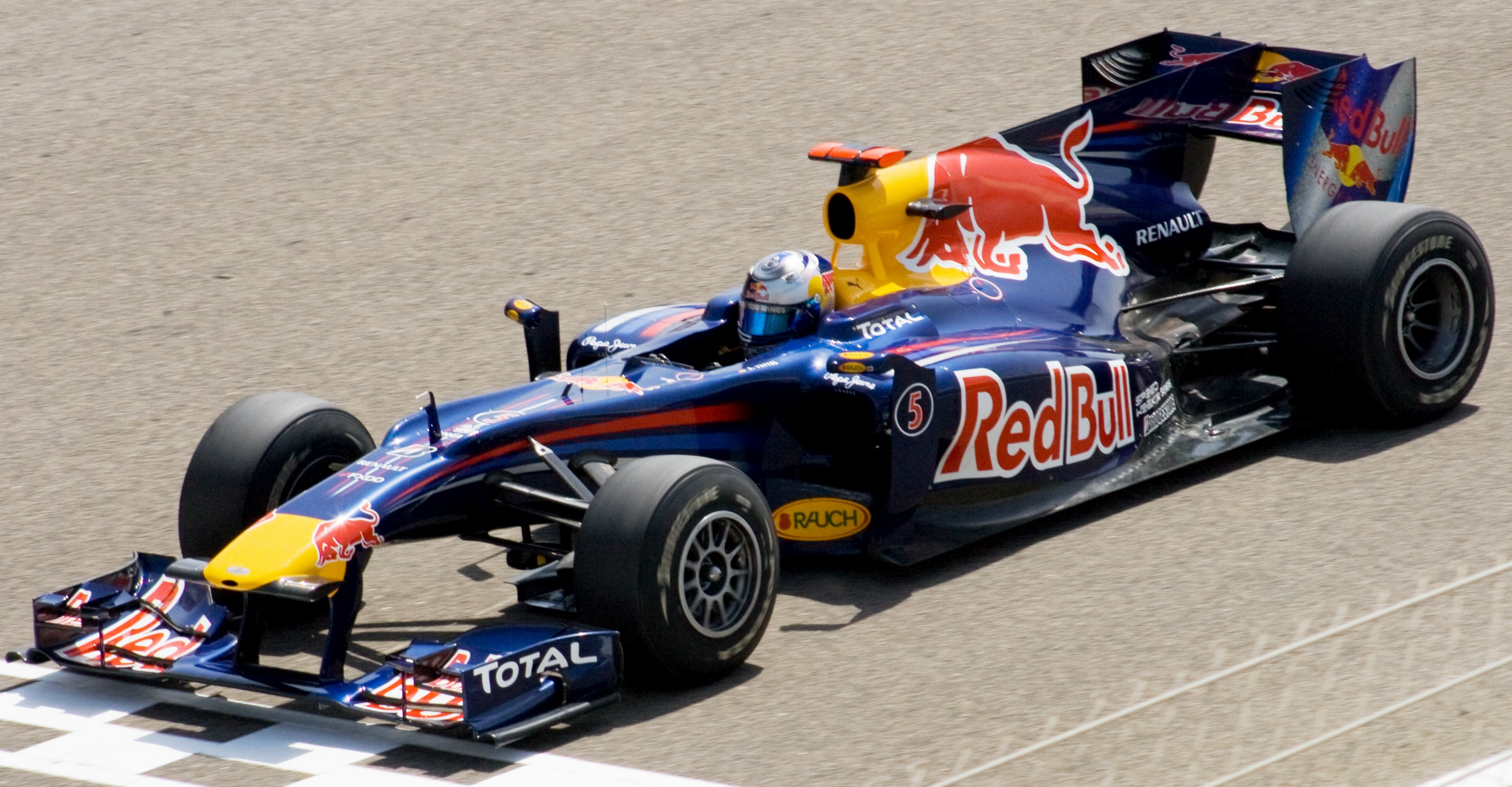 Vettel driving during Friday practice